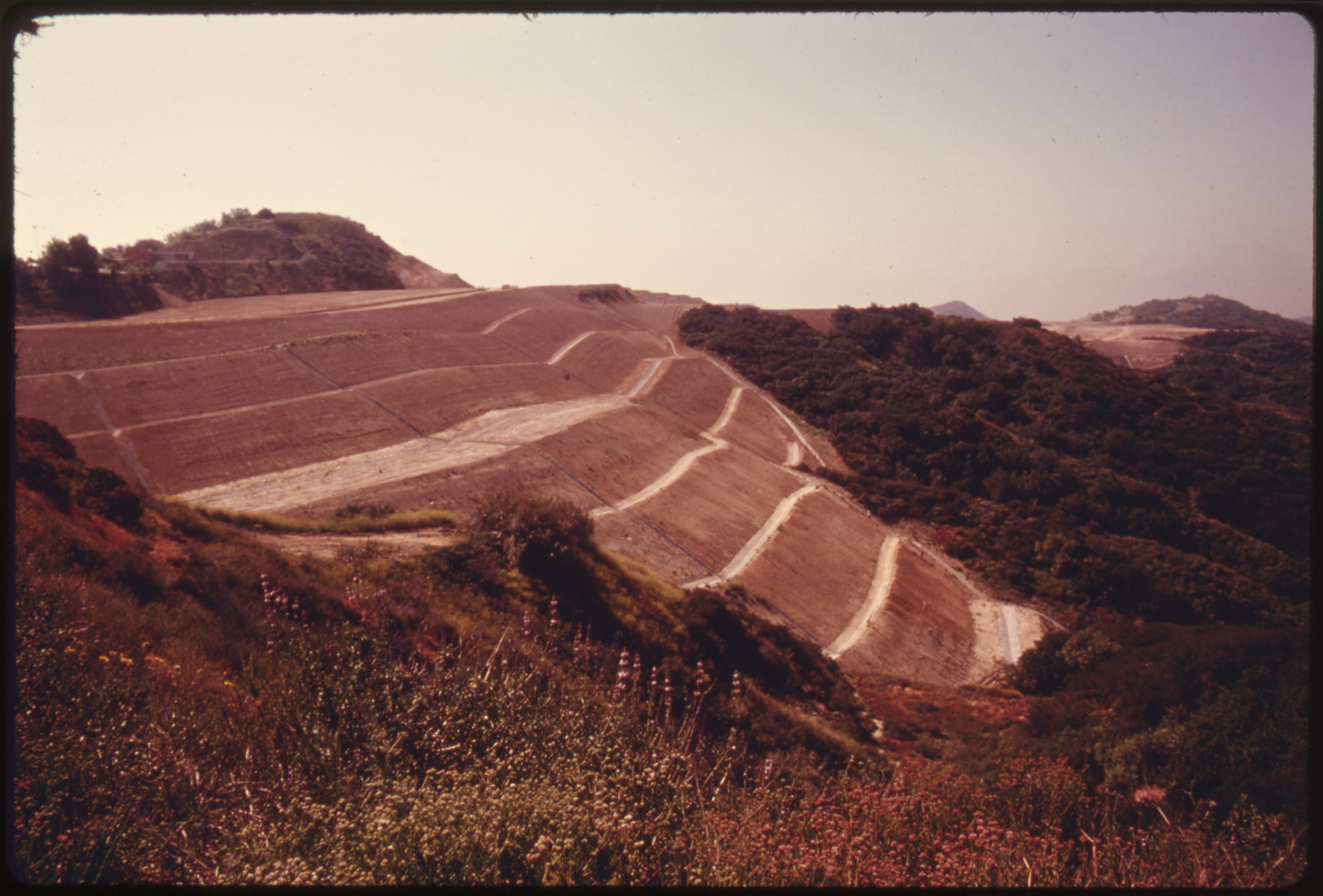 General notes: Regrading in Calabasas, California.